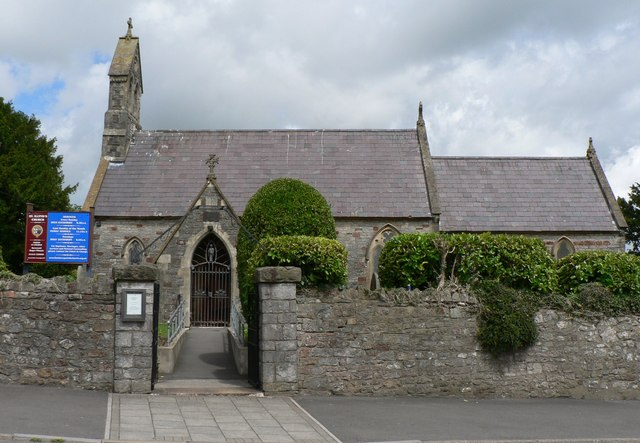 St. Illtyd's Parish Church. Llanharry Architectural and historical information is available at this web site